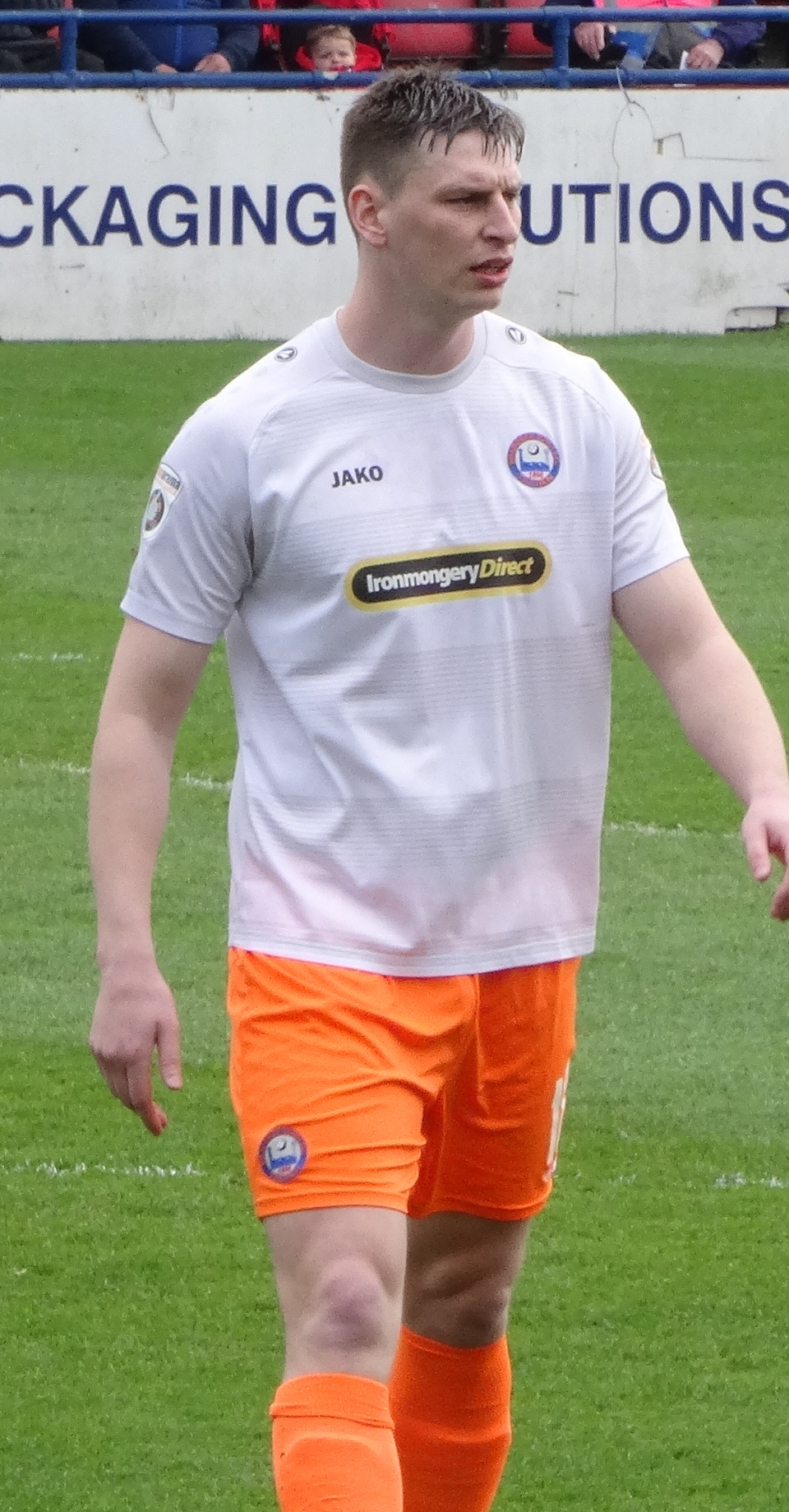 Jake Goodman playing for Braintree Town against York City at Bootham Crescent, York on 1 April 2017